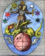 Sixth woodcut from the series in Basil Valentine's Azoth (Text by: Alchemy Web Site).